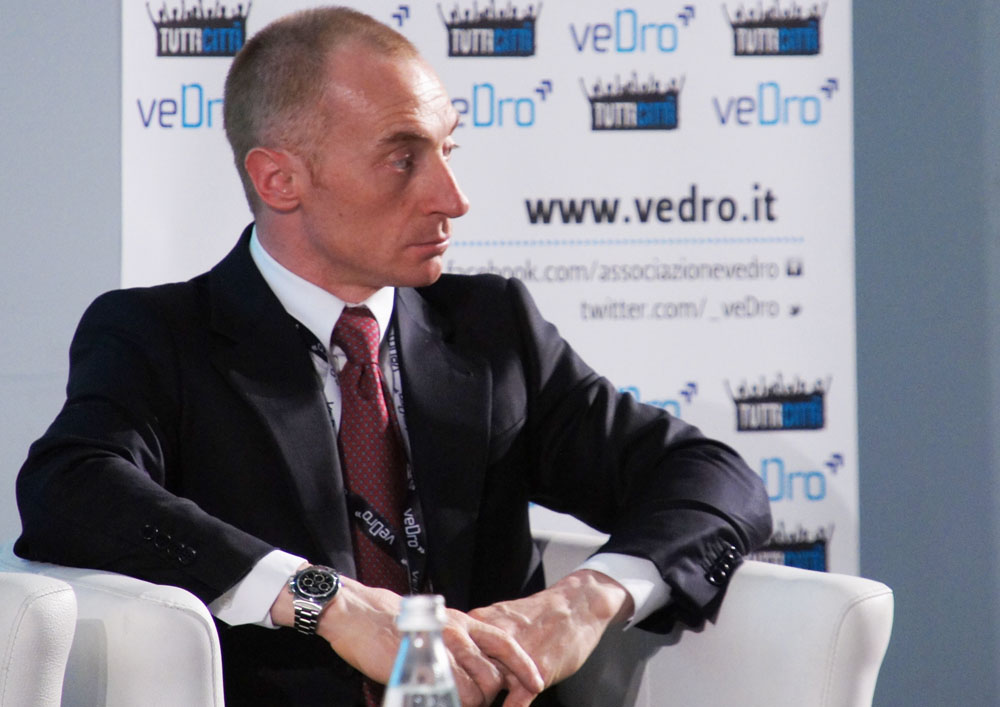 The Italian artistic gymnast Jury Chechi